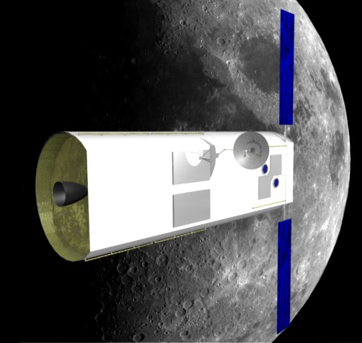 ASI Translunar module in flight (rendered image).